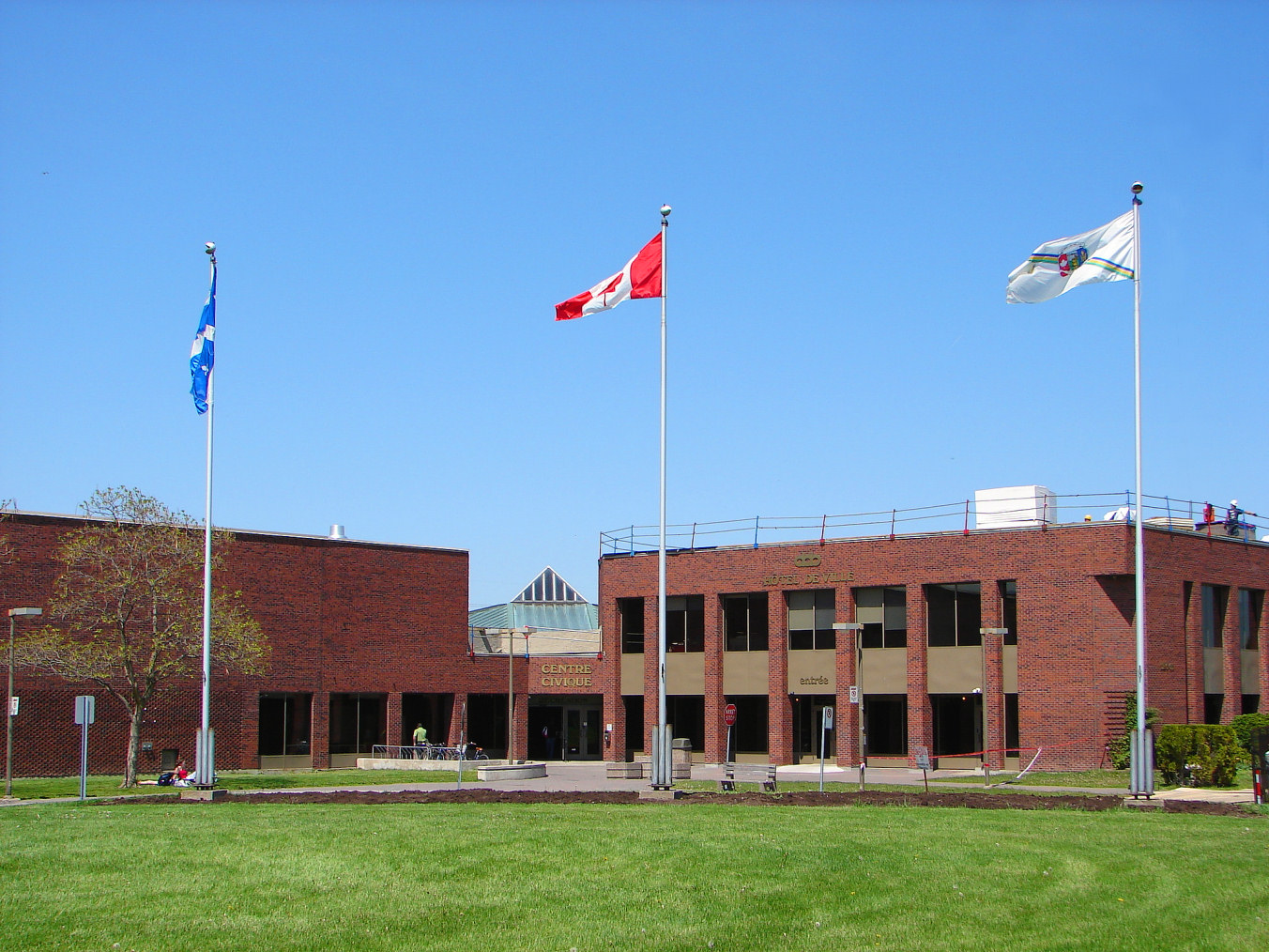 Civic Centre and Town Hall of Dollard-des-Ormeaux, Quebec, Canada